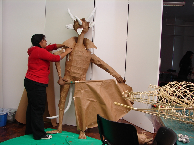 Making a Judas figure at a workshop at the Museo de Arte Popular